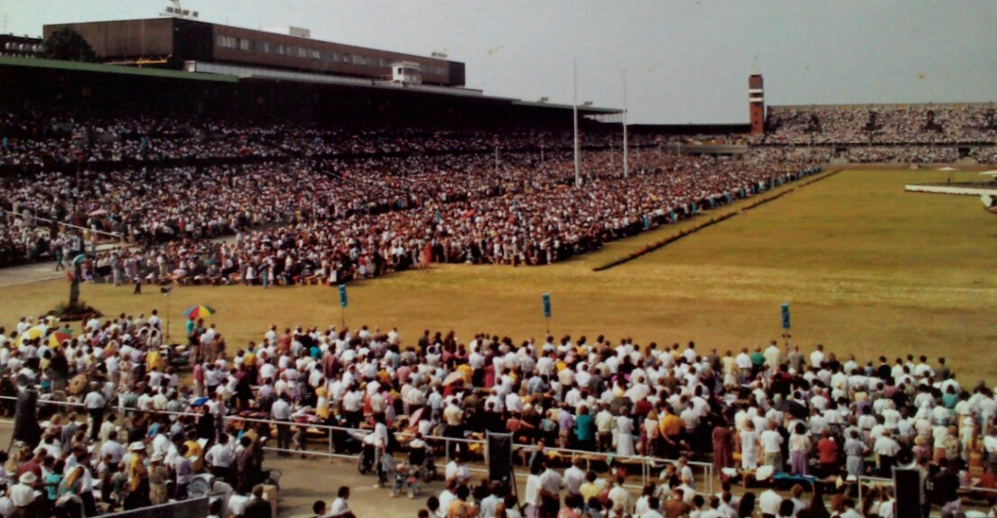 International Convention of Jehovah's Witnesses, Prag 1991